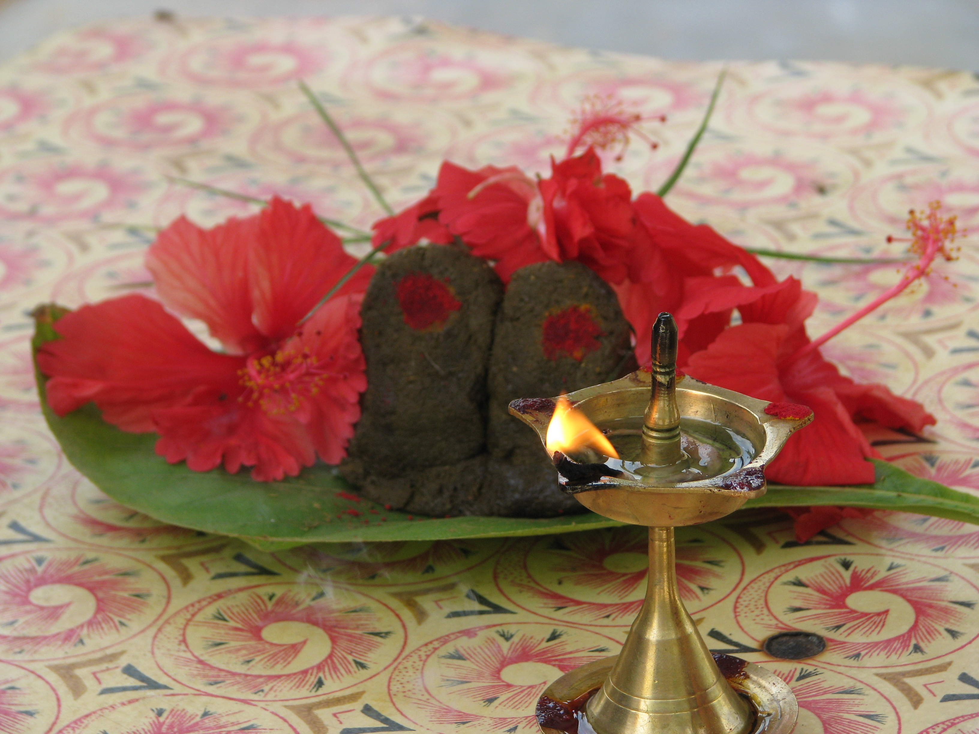 Offering of flowers and shaped dung to Shiva, placed on a leaf with a lit oil lamp in the foreground.